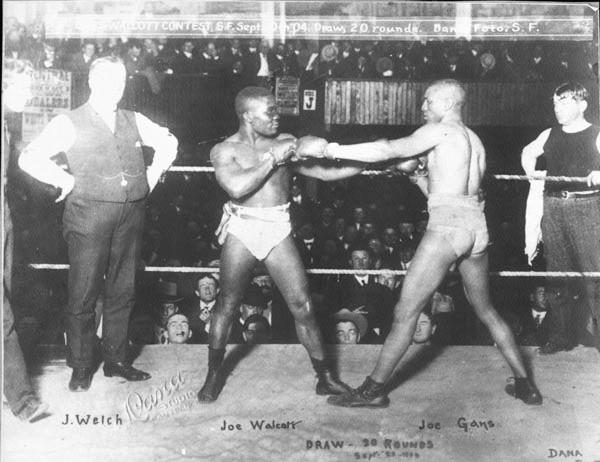 Photograph of Barbados Joe Walcott and Joe Gans